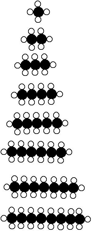 Ball diagram of the alkanes.